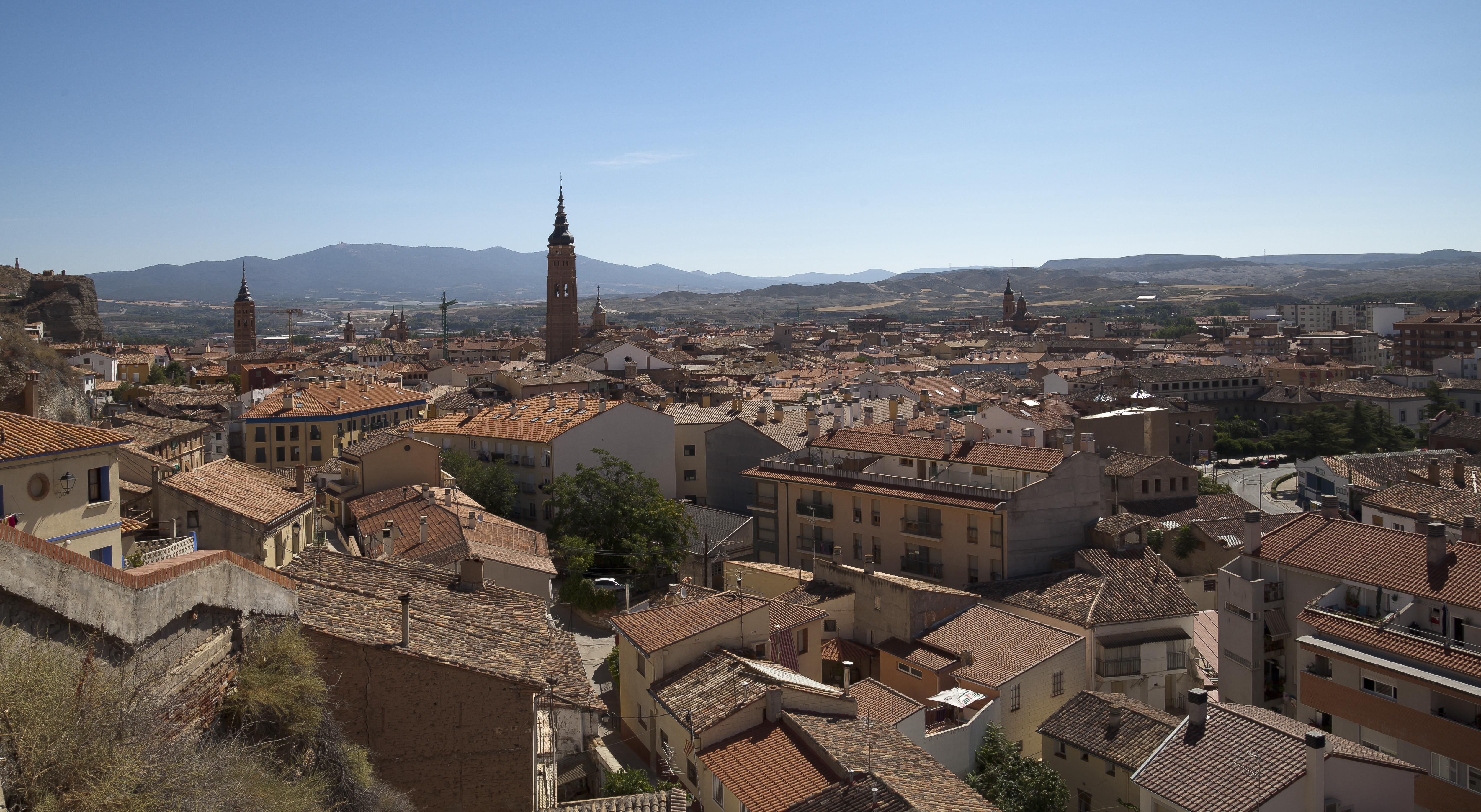 General view of Calatayud from the church of La Peña, Spain